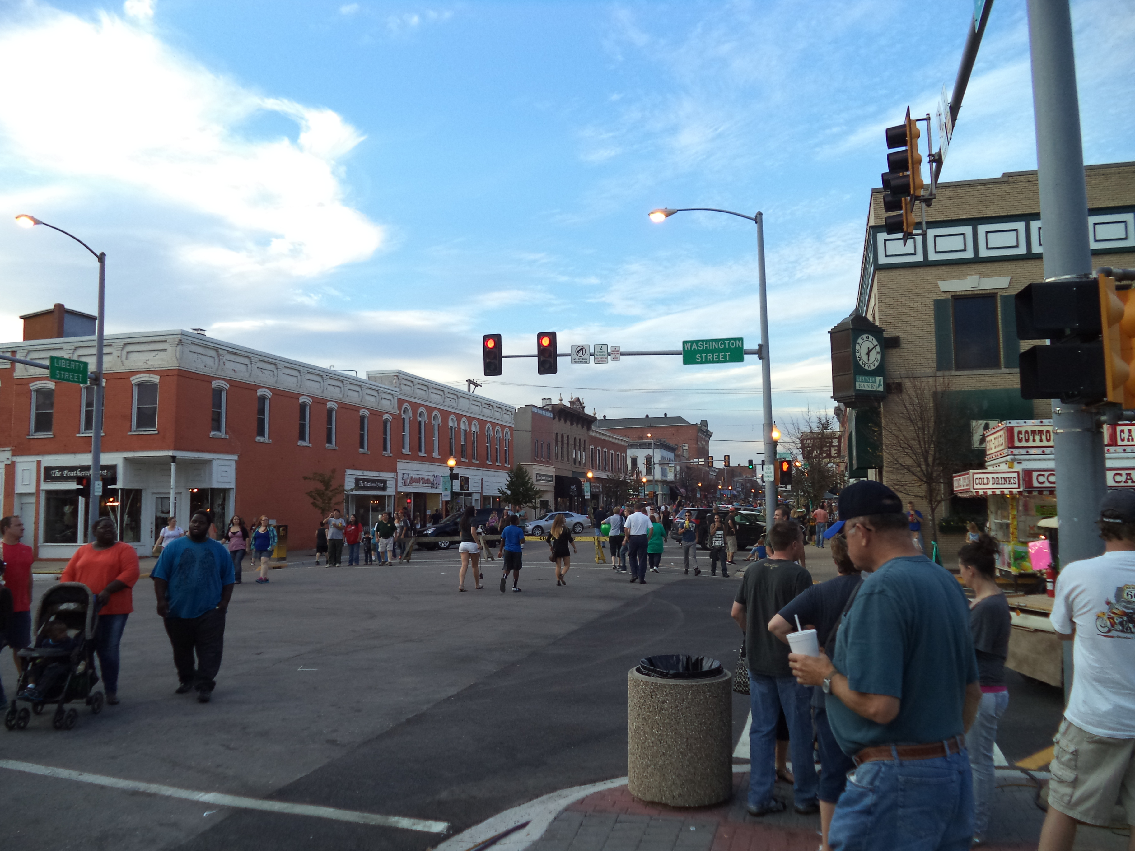 Downtown Morris, Illinois during the Grundy County Corn Festival